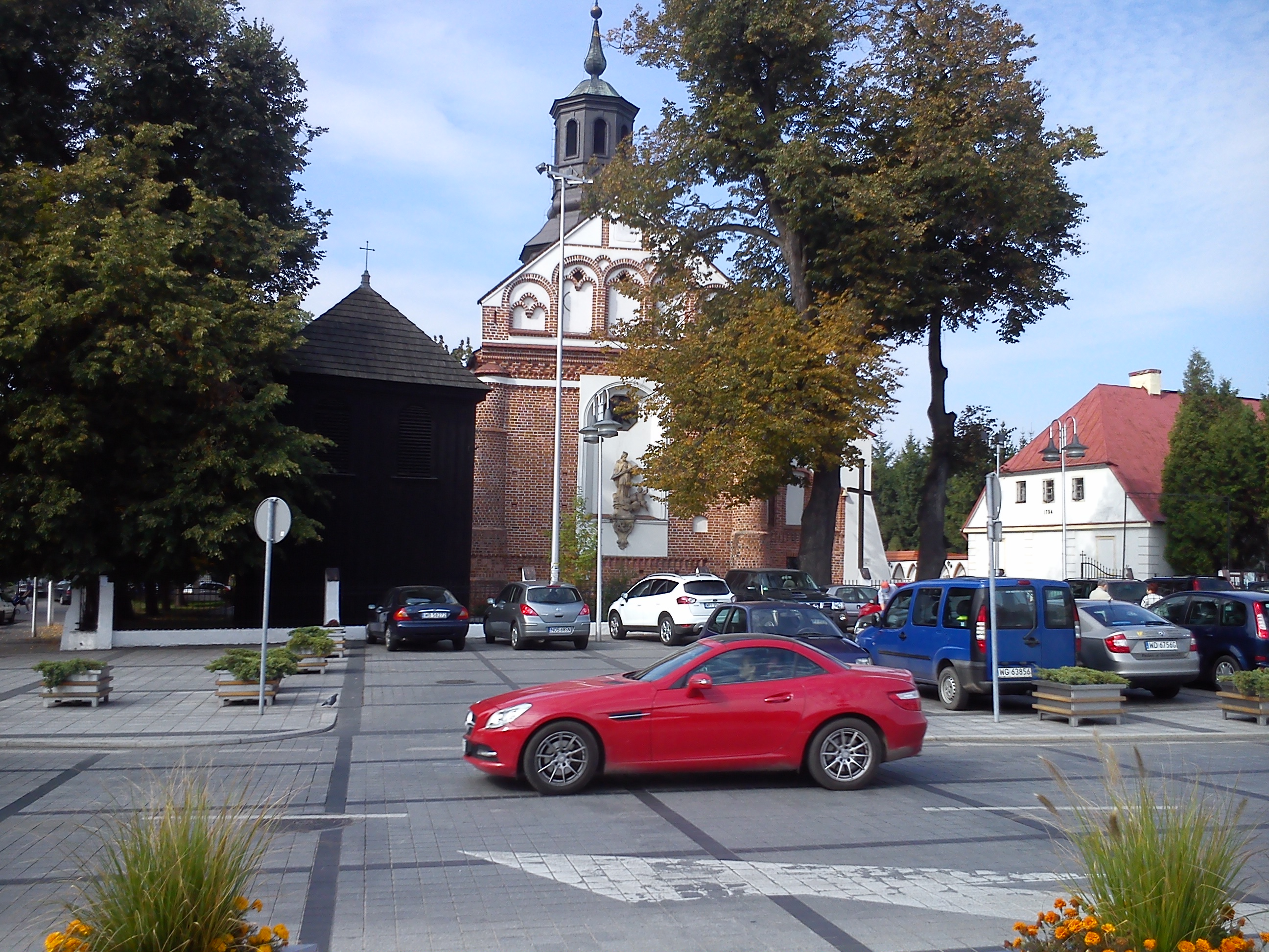 St. Anne's Church, Piaseczno